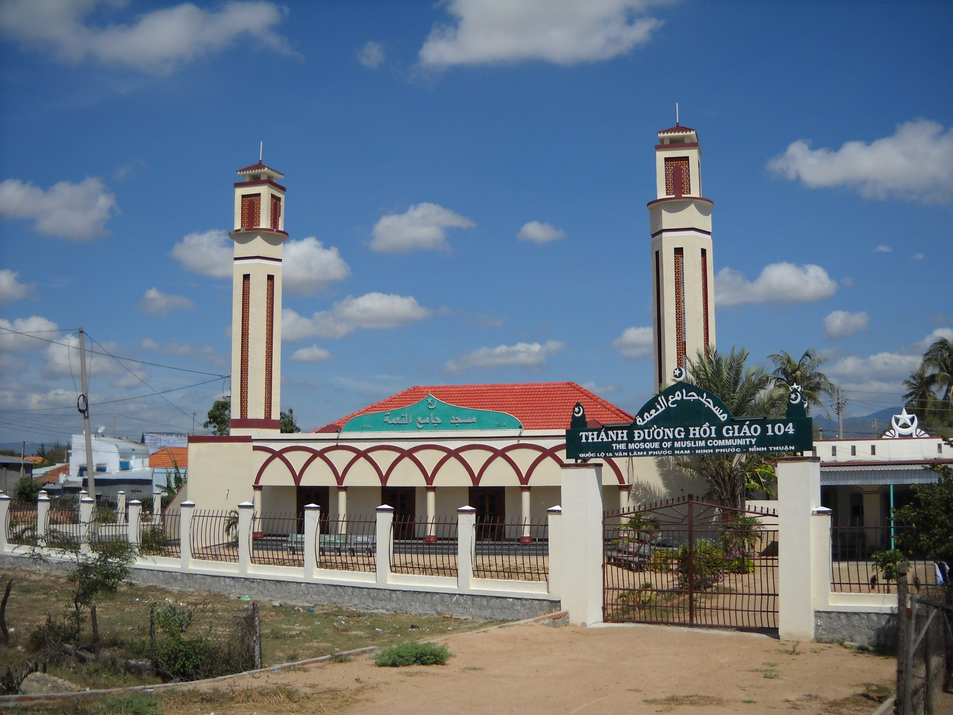 A Mosque in Ninh Phước District, Ninh Thuận